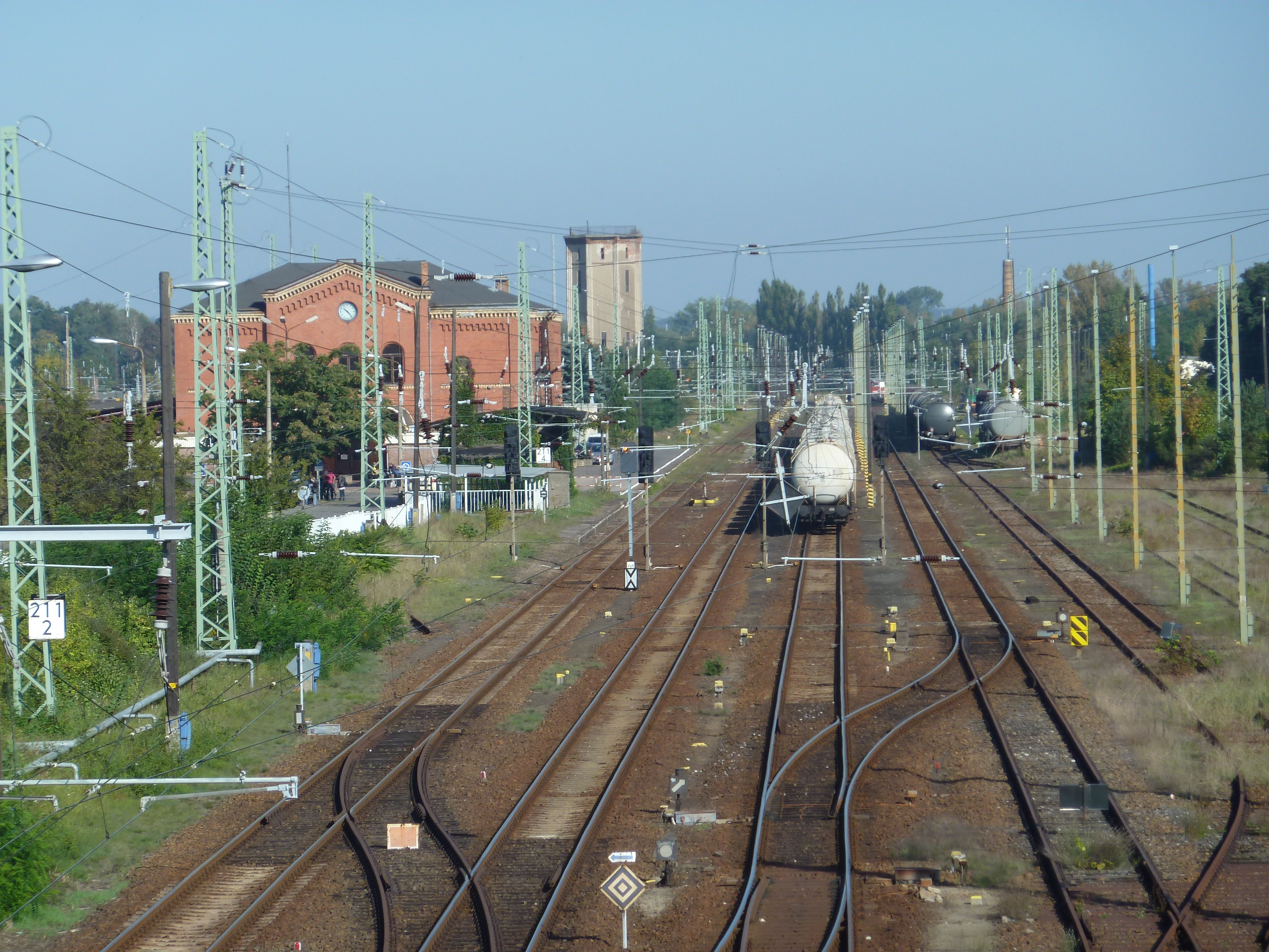 Guben train station. Eastern Part.